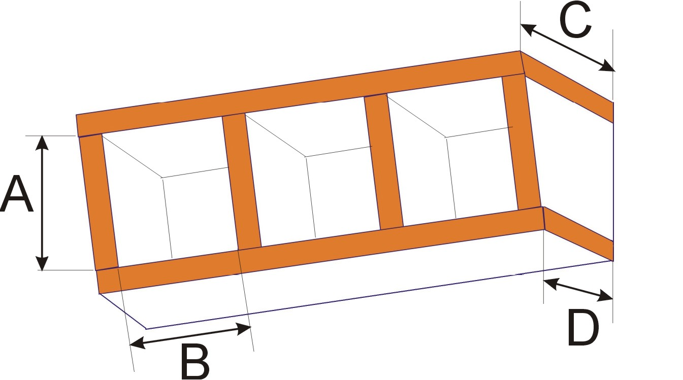 Nestbox for House Martins Delichon urbica